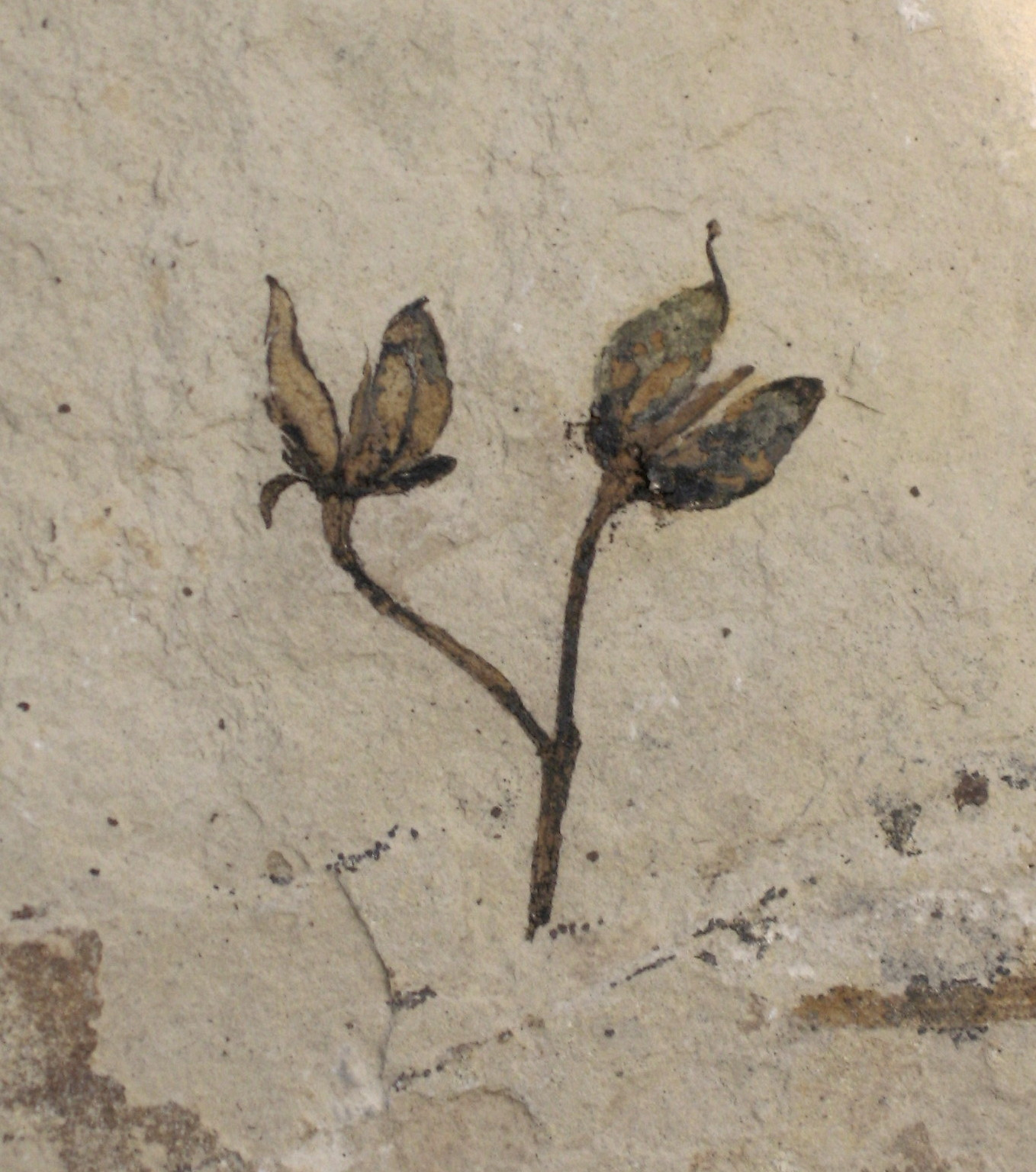 A 3.2cm tall pair of unidentified fruits previously attributed to the genus Gordonia. Klondike Mountain Formation, Republic, Ferry County, Washington, USA, Eocene, Ypresian, 49million years old. Stonerose Interpretive Center Collection #